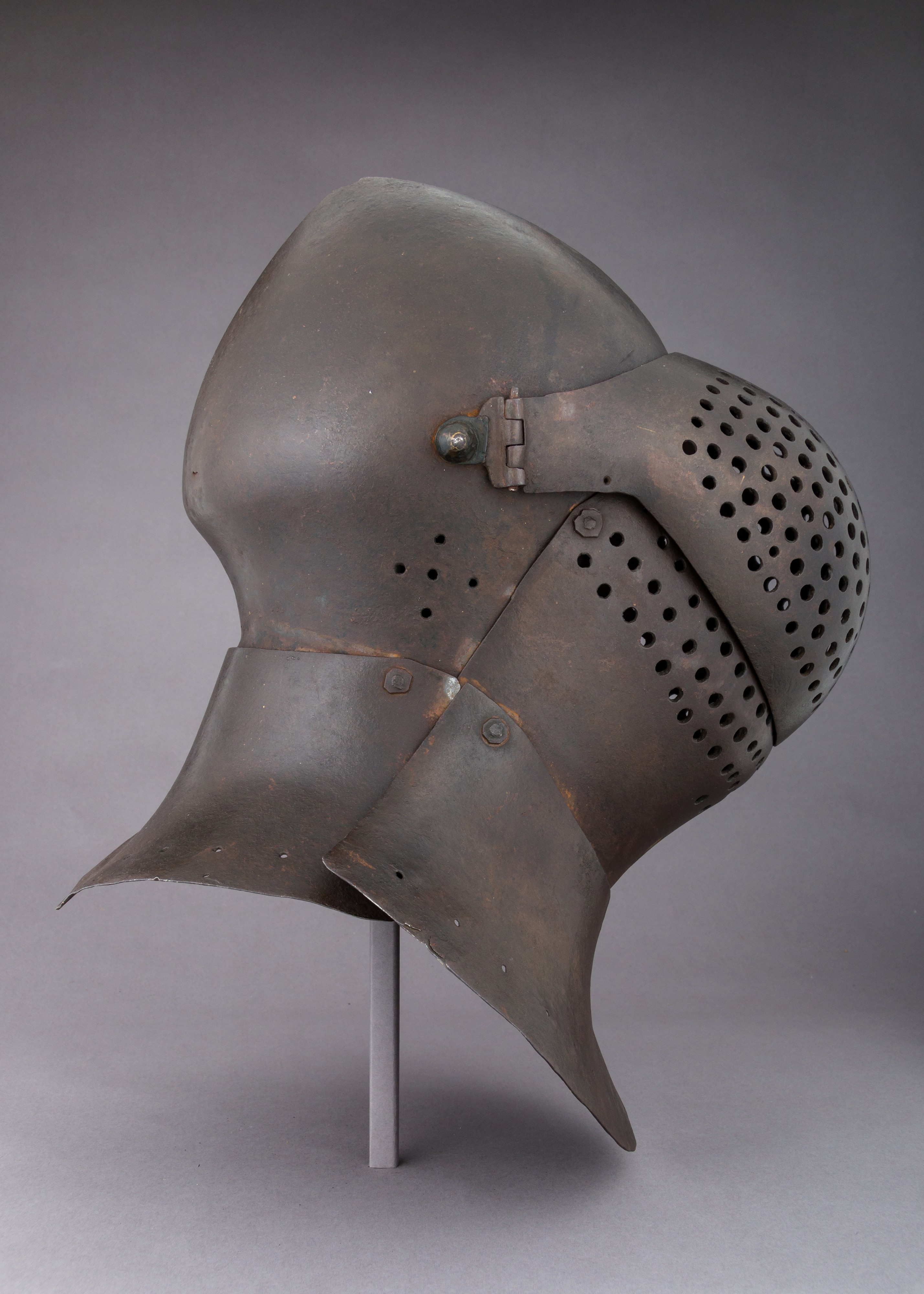 German; Visored bascinet; Helmets